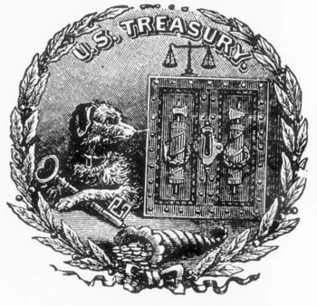 An old seal of the United States Department of the Treasury, dating from about 1800. The origin of the seal is a matter of speculation. Just how extensively the seal was used is unknown, but it has long since disappeared from Treasury documents. The original plate of the seal is on deposit at the Government Printing Office. Within a wreath around the seal's edges is a symbolic strongbox, and lying beside the strongbox is a capable looking watchdog with his left front paw securely clasping a large key. The seal bears the lettering "U.S. Treasury." The key and scales are also incorporated in the official Treasury seal. The U.S. Mint did in fact have a real watchdog named Nero, originally purchased in 1793 for $3. According to department legend, Nero is the canine depicted. For more information, see here and here.